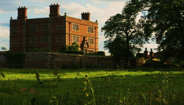 Soulton hall in shropshire uk